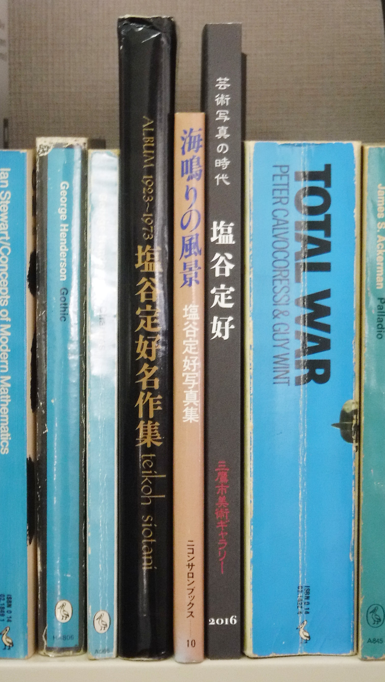 Books of the photographs of Shiotani Teikō